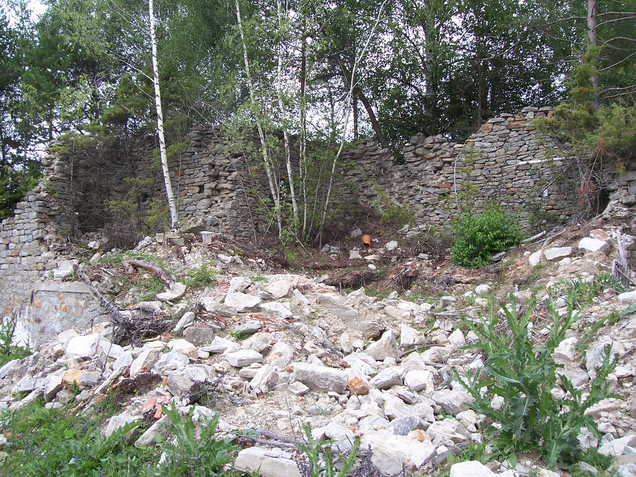 Ruins of a church in Tisovo.